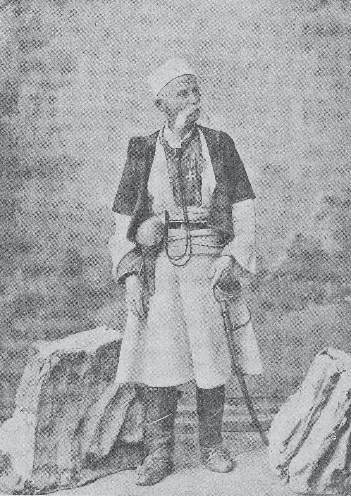 Portrait of Gjorgji Pulevski, one of the first Macedonian modern writers.)